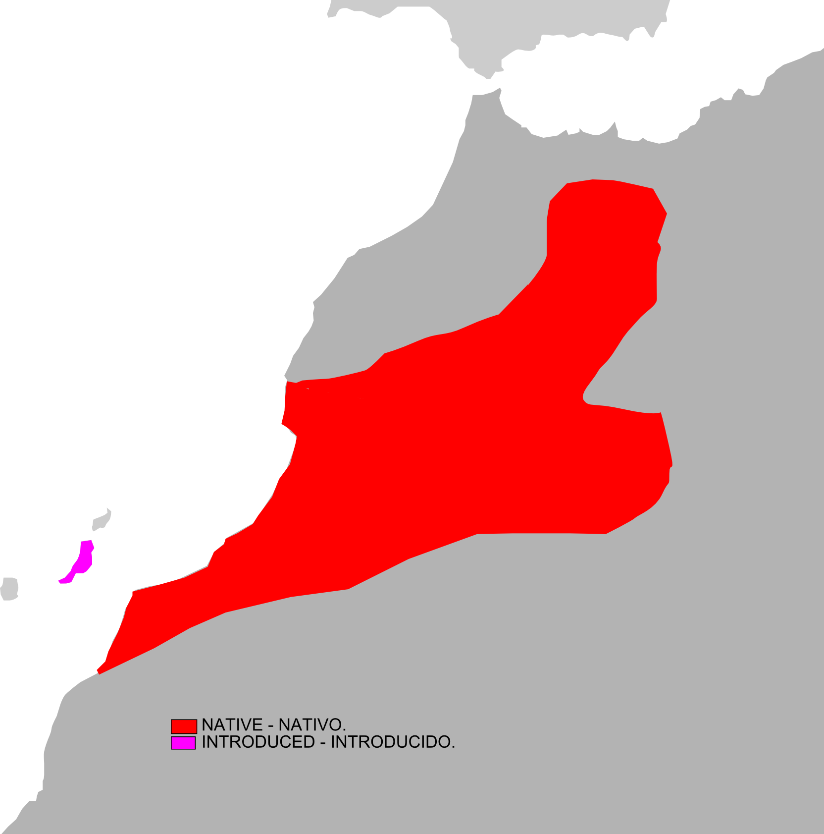 Atlantoxerus getulus distribution map.